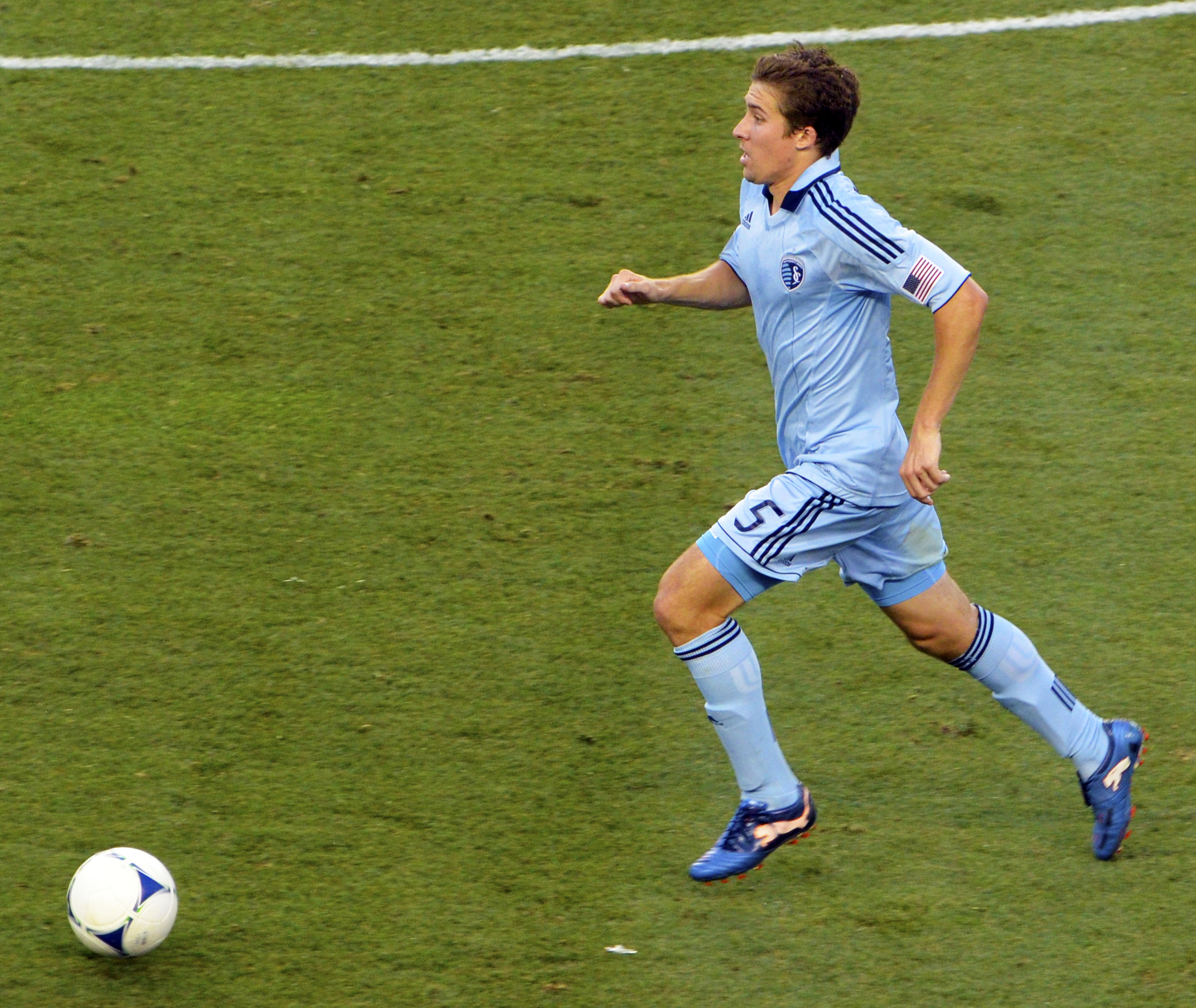 Matt Besler, defender for the Sporting KC, dribbles the ball down the field versus the Houston Dynamo's on July 7th, 2012.